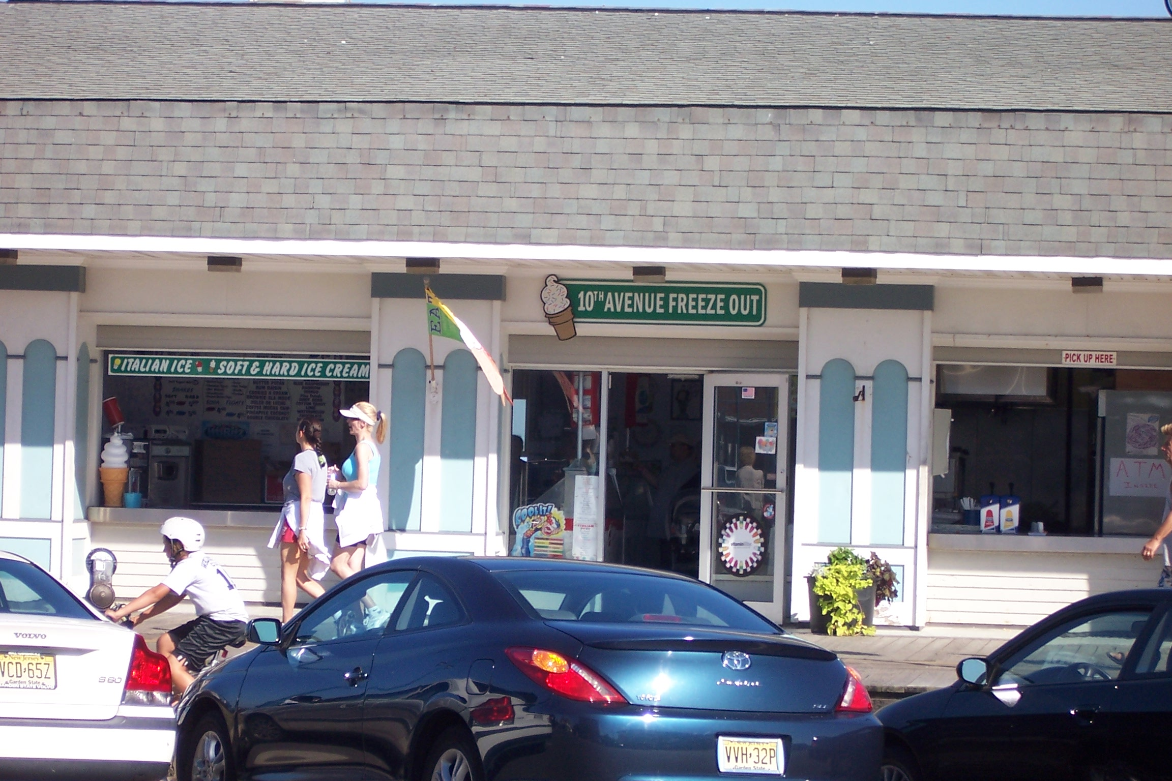 Ice cream stand in Belmar, New Jersey, named after "10th Avenue Freeze Out"